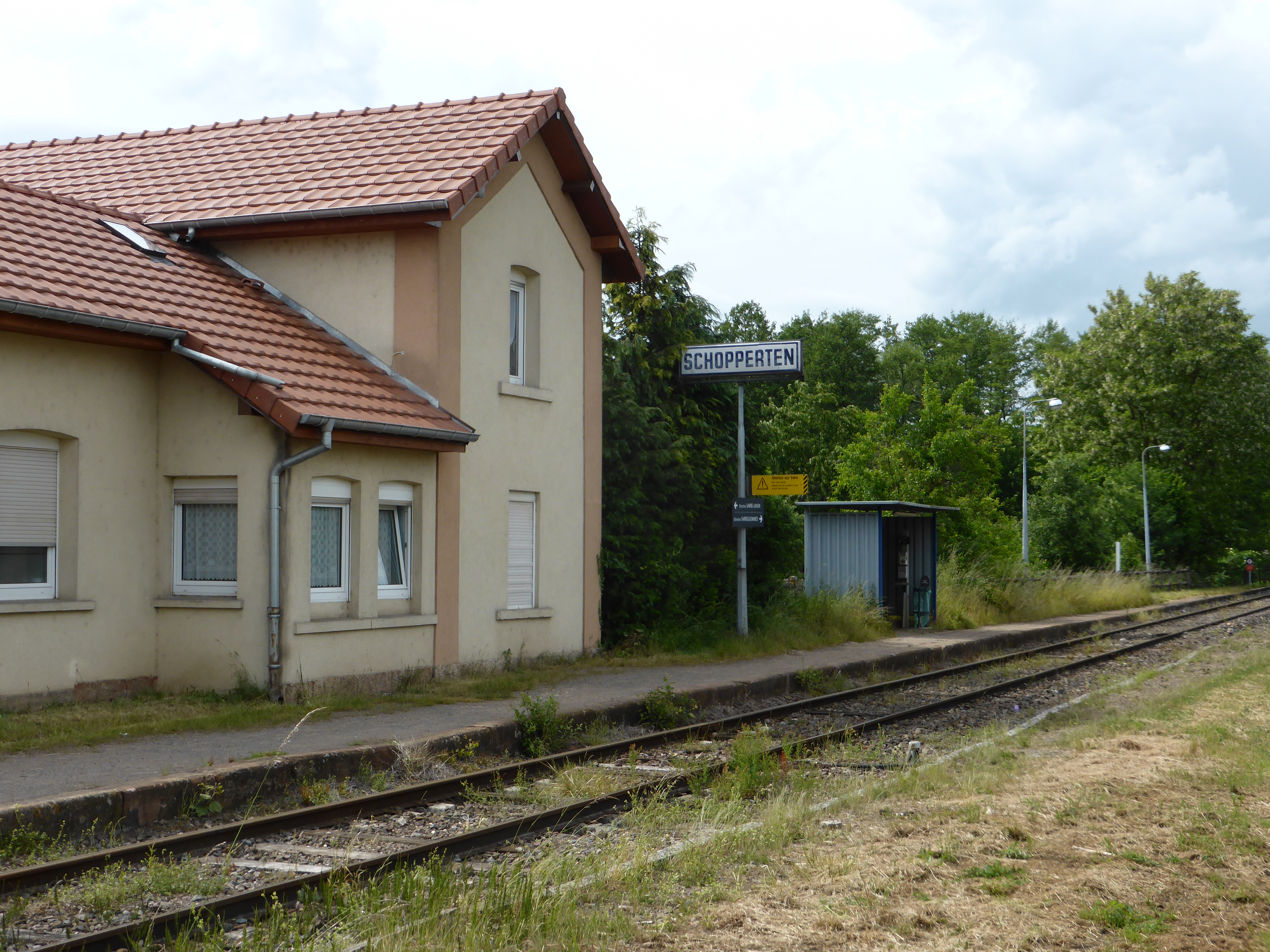 Train station of Schopperten (Bas-Rhin)